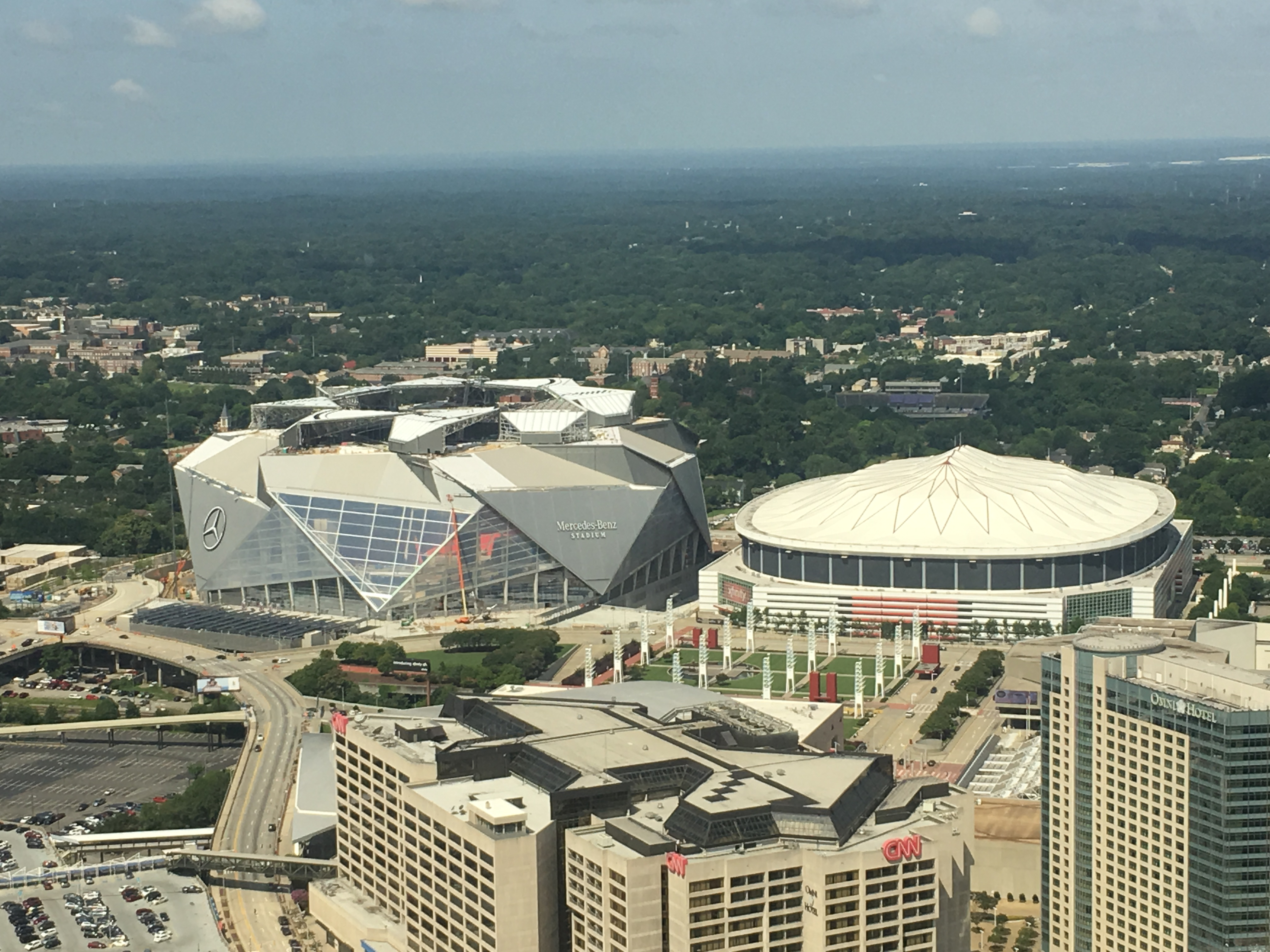 Took this myself on July 2, 2017 from the Peachtree Plaza Hotel observation deck.